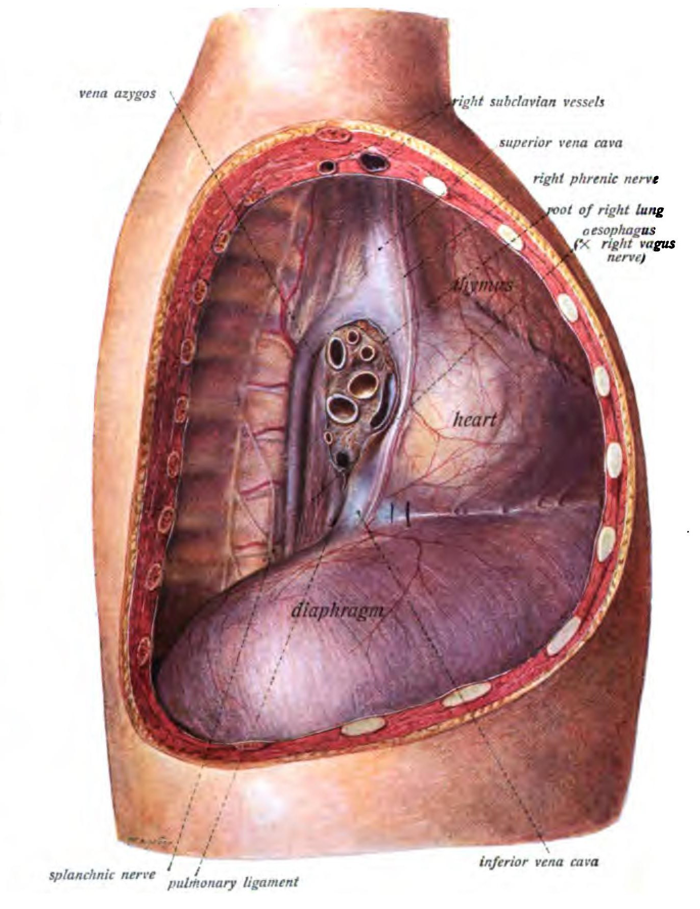 An anatomical illustration from the 1906 edition of Sobotta's Atlas and Text-book of Human Anatomy with English Terminology